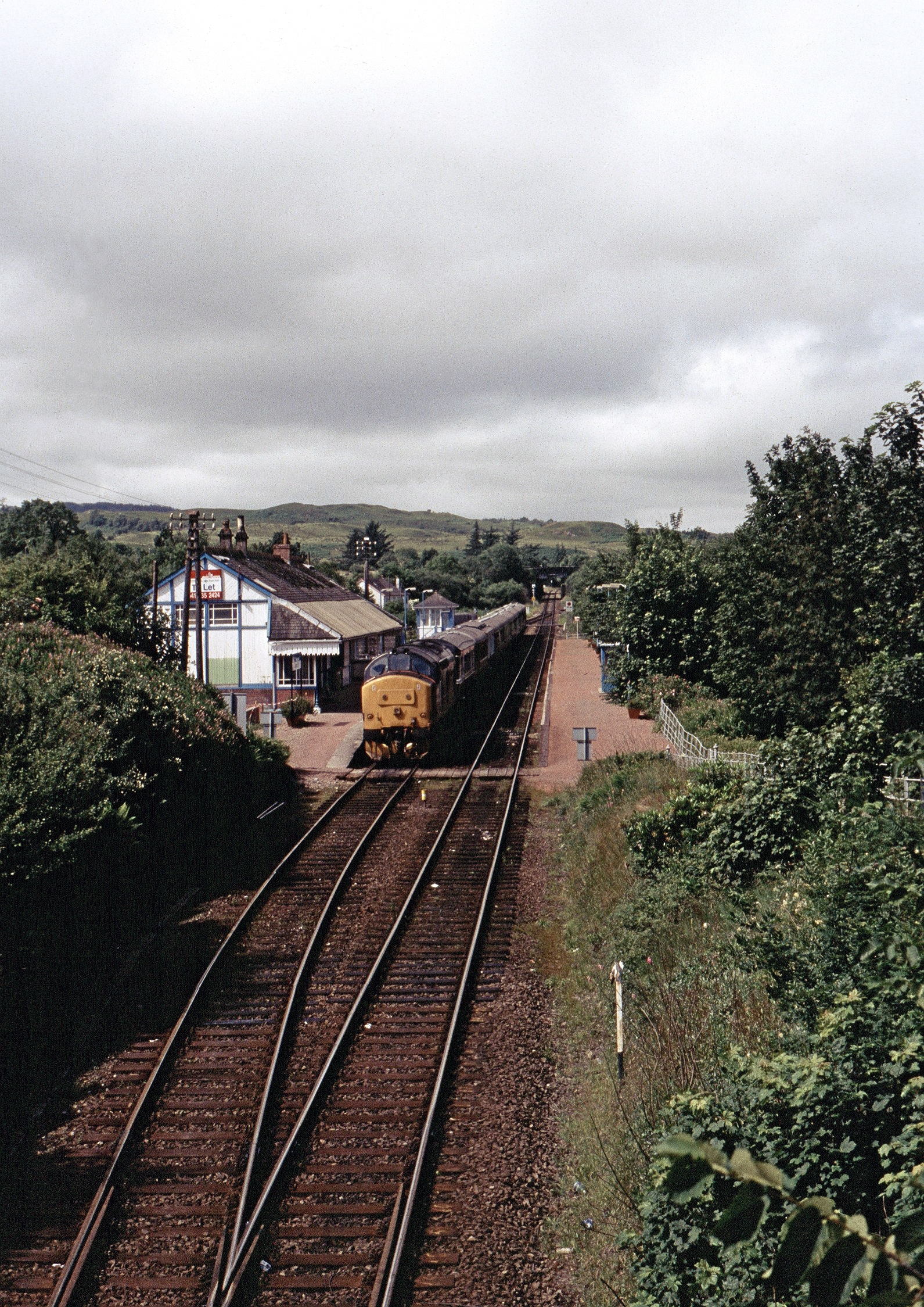 Taynuilt Station with Class 37